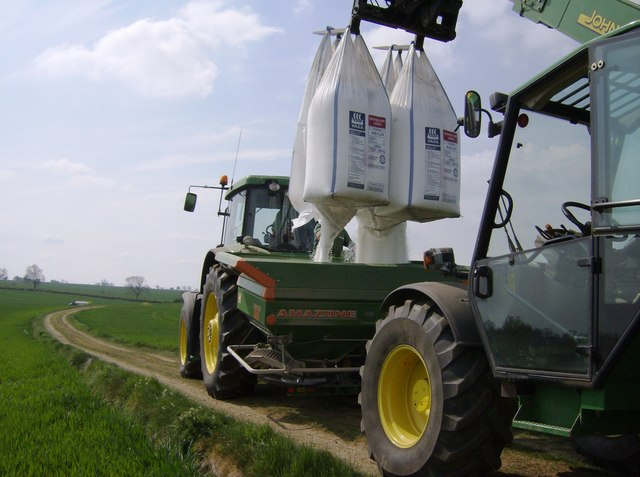 Fertilising operations in Northamptonshire, England. The fork-lift (telehandler) driver has collected four bags of Yara fertiliser and has slashed their bottoms to fill the hopper of the Amazone spreader. The tractor driver then headed off across the fields depositing from the hopper, whilst the telehandler driver headed off for more full bags. A very streamlined operation. See also 493884 and 493890